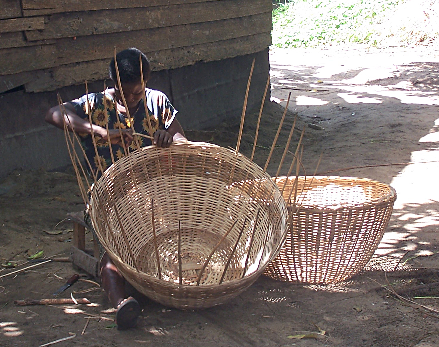 Woman weaving baskets near Lake Ossa, west of Edea in Cameroon's Littoral Province. Cropped and sharpened version of Image:Edea.jpg, modified by User:Amcaja.